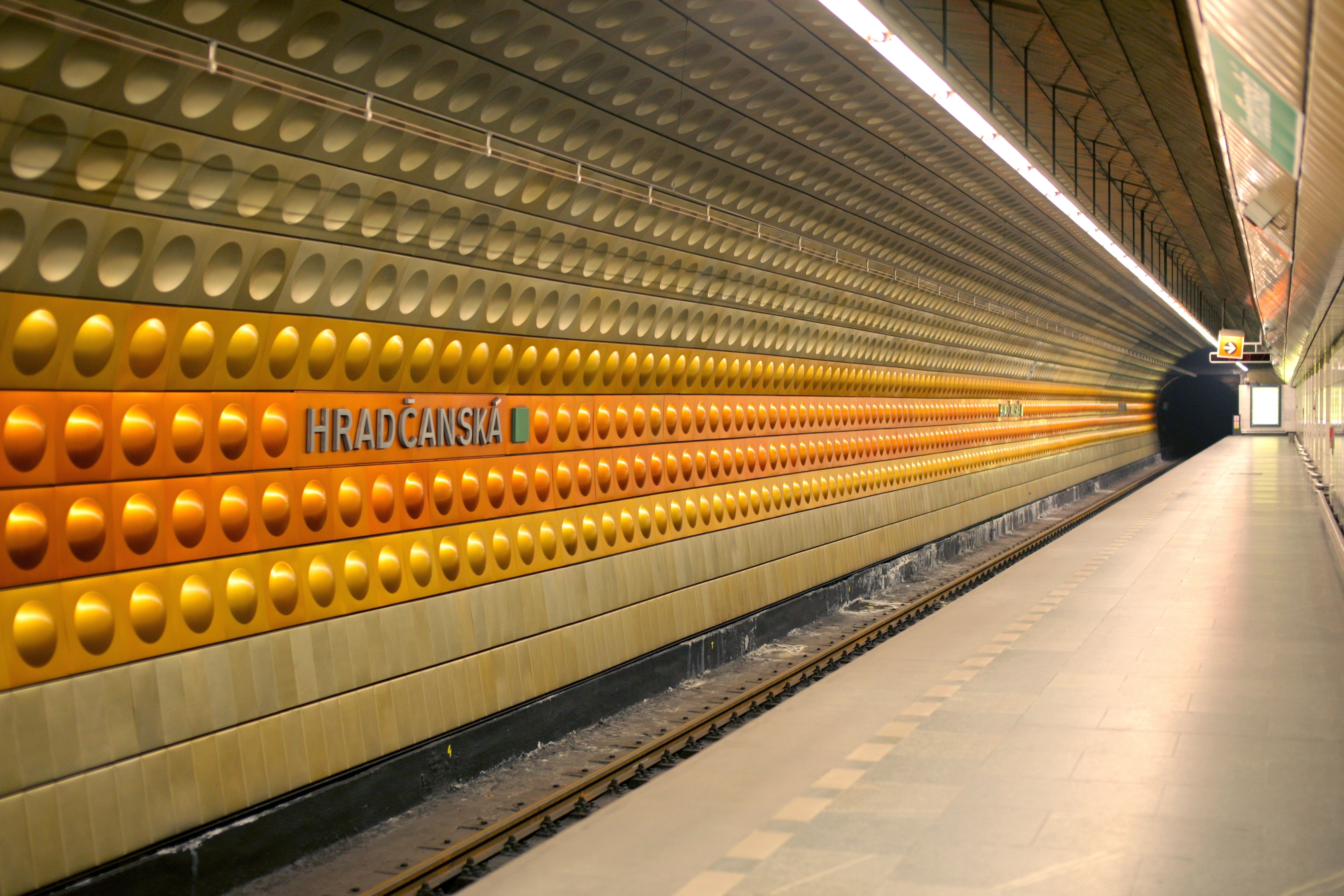 Prague Metro Station Hradcanska